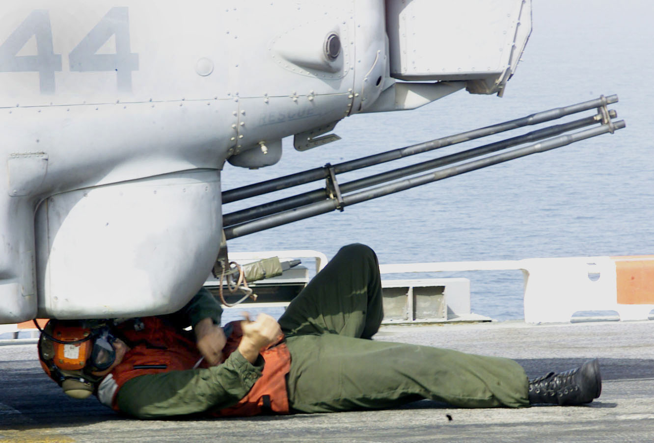 ABOARD USS PELELIU. A marine from the 15th Marine Expeditionary Unit (special operations capable) inspects an AH-1W Super Cobra's 20 mm machine gun on the flight deck of the amphibious assault ship USS Peleliu (LHA-5) before the aircraft departs on a mission in support of operation Enduring Freedom.